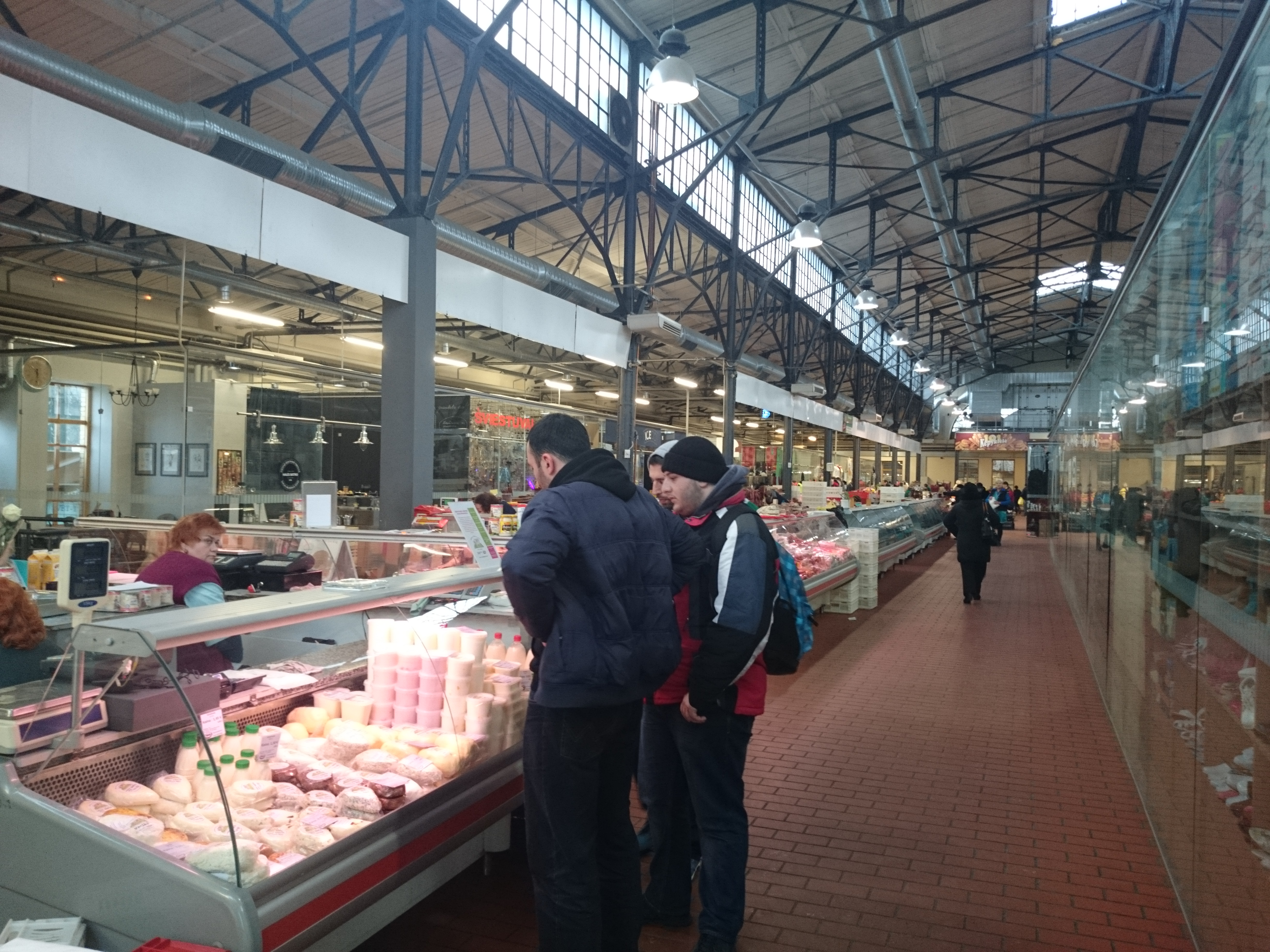 Halės turgus